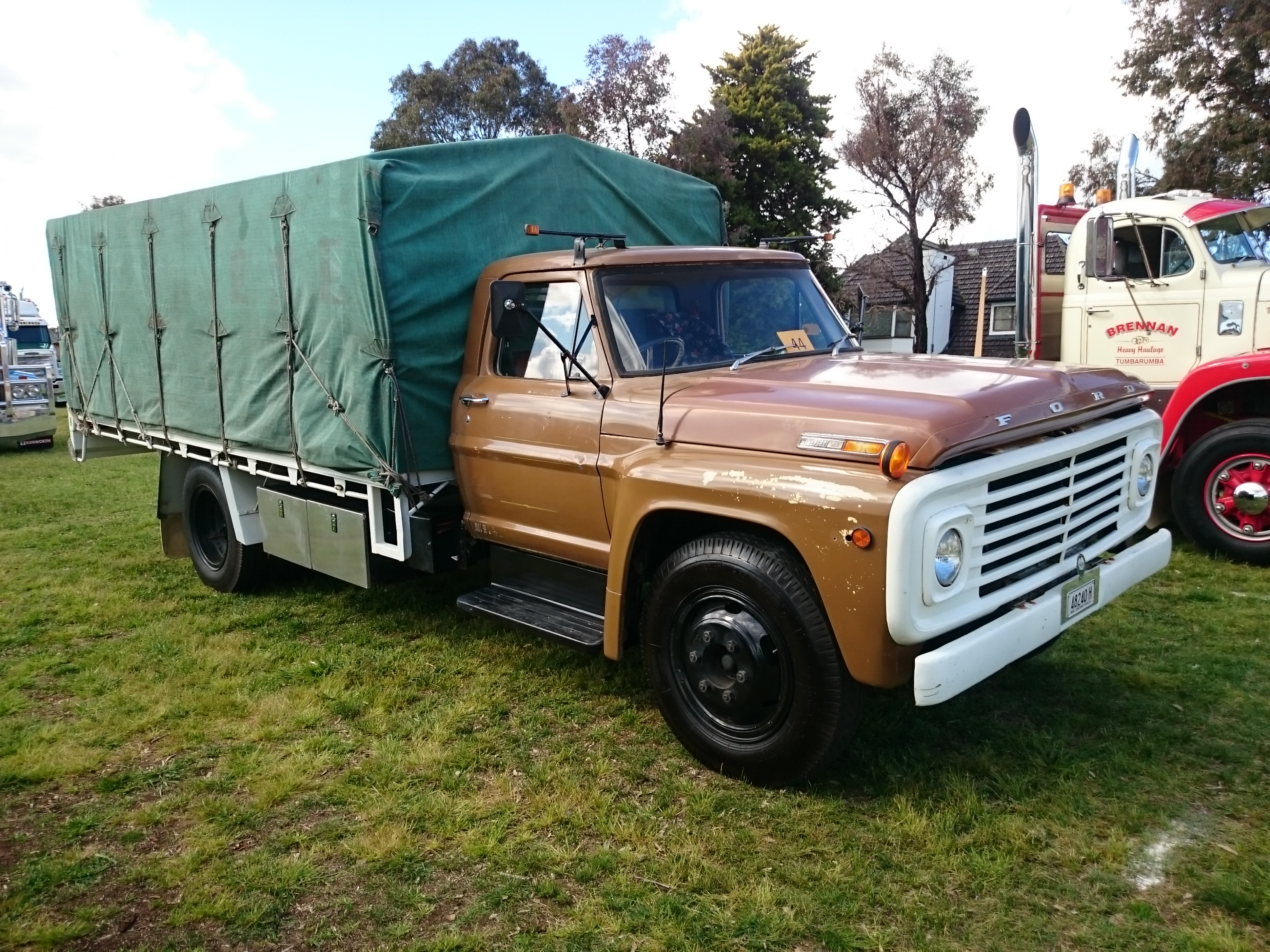 1972 Ford F500 truck on display at the 2015 Riverina Truck Show and Kids Convoy held at Lake Albert.